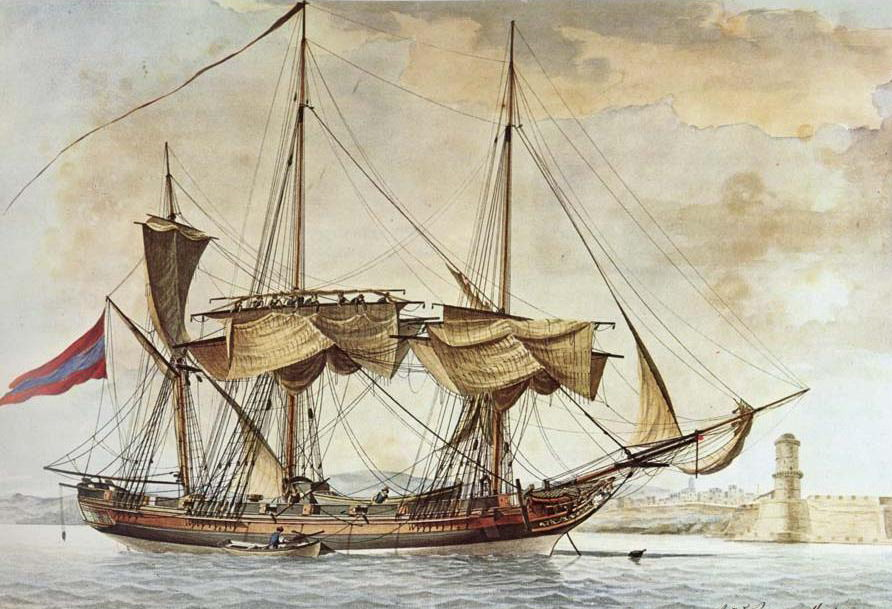 Bella Aurora - a Greek polacre off Marseille